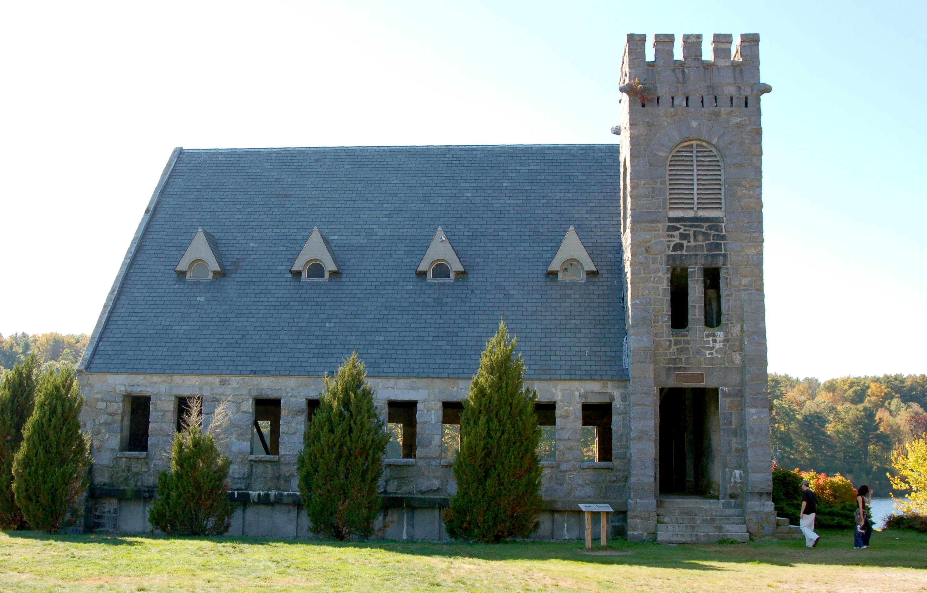 Old Stone Church in West Boylston, MA. Photo taken by Author, Richard B. Johnson.